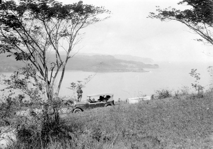 Car with trailer at Pacitan Bay